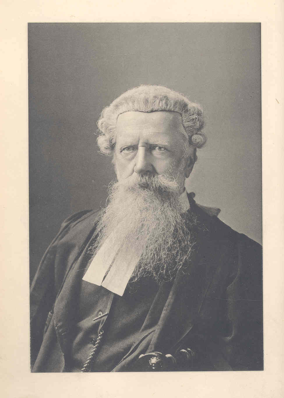 Portrait of John Pym Yeatman